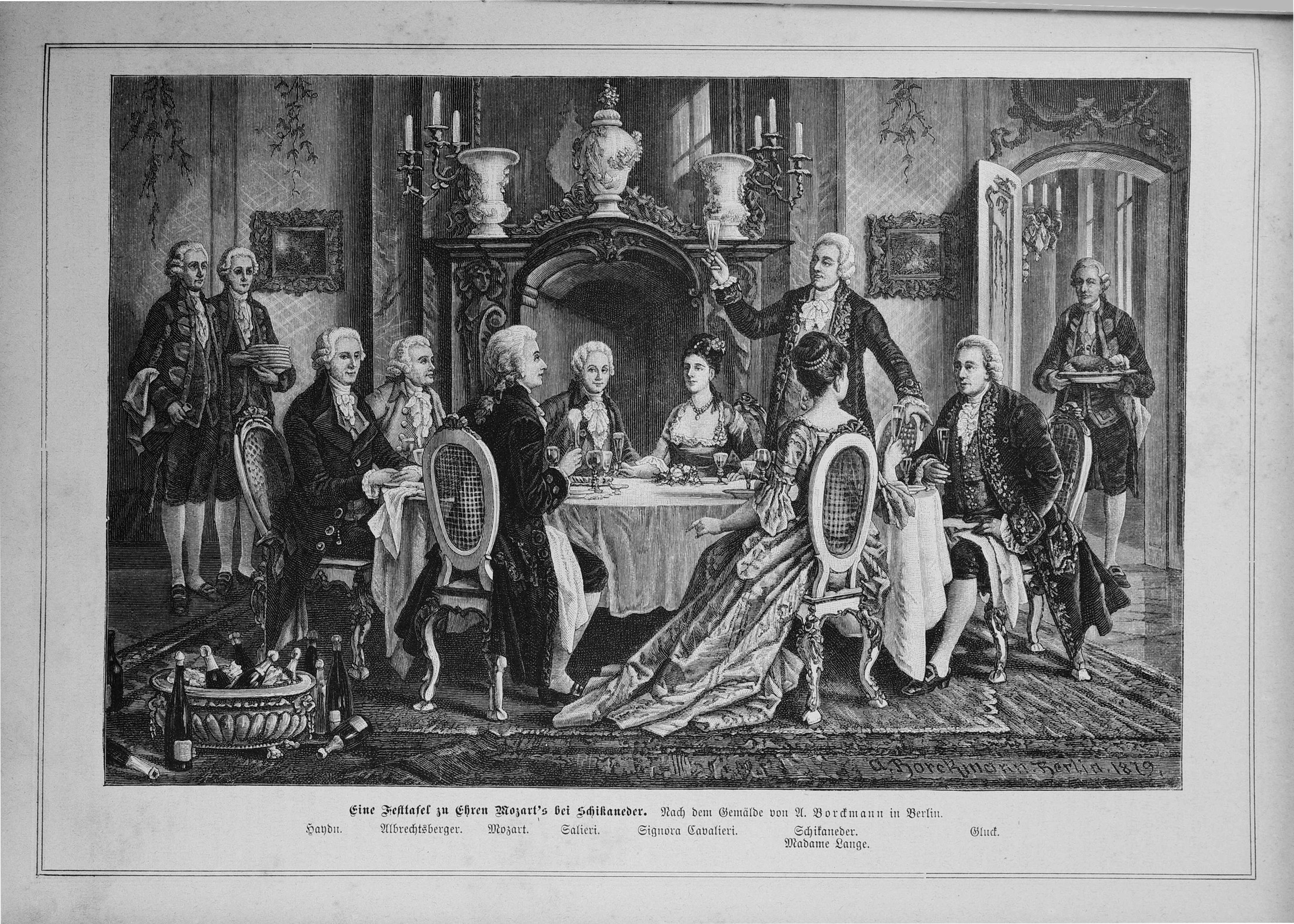 Page 289 from journal Die Gartenlaube for 1880. Extracted image (if any): File:Die Gartenlaube (1880) b 289.jpg - hi res, ~2.5 MB.